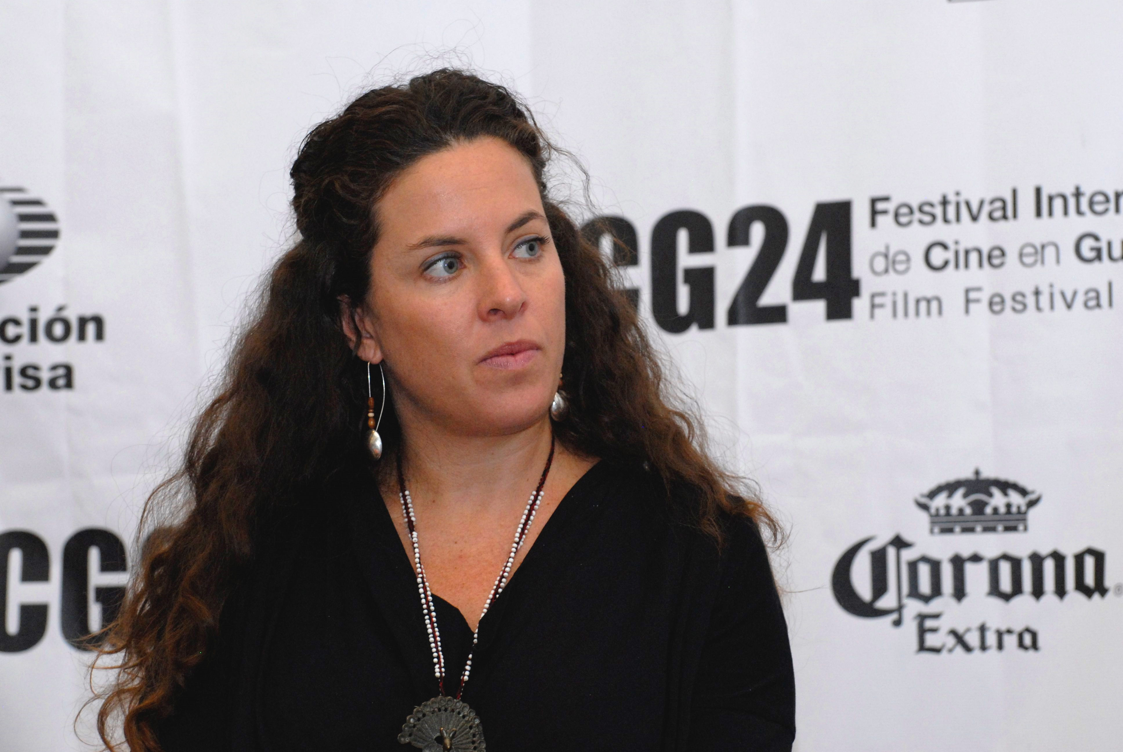 Peruvian film director Claudia Llosa (Festival Internacional de Cine en Guadalajara, Mexico, 2009-03-23)